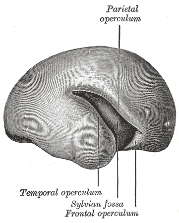 Outer surface of cerebral hemisphere of human embryo of about five months.